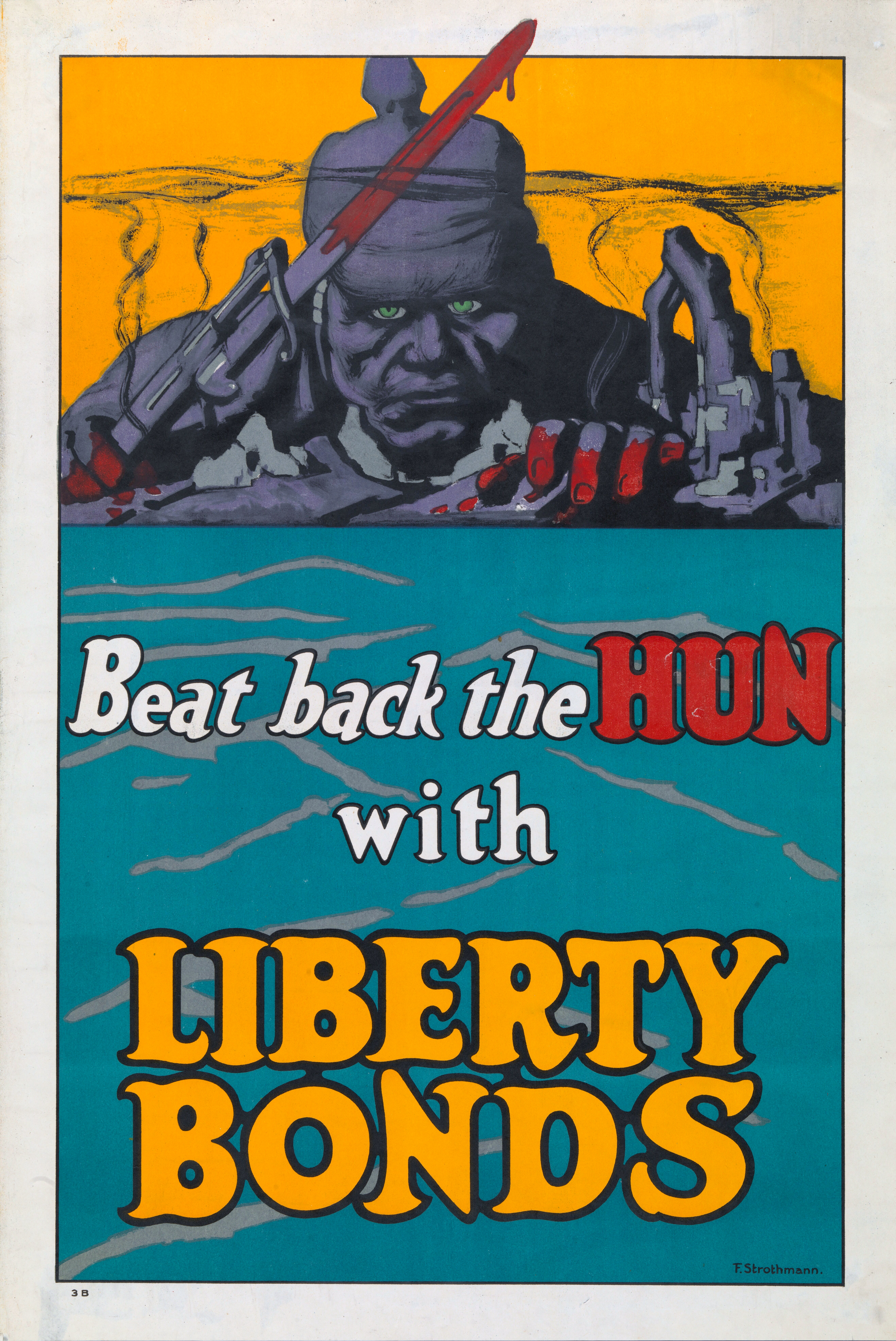 World War I war bond posters depicted Germans in ways similar to modern hate-group caraicatures.